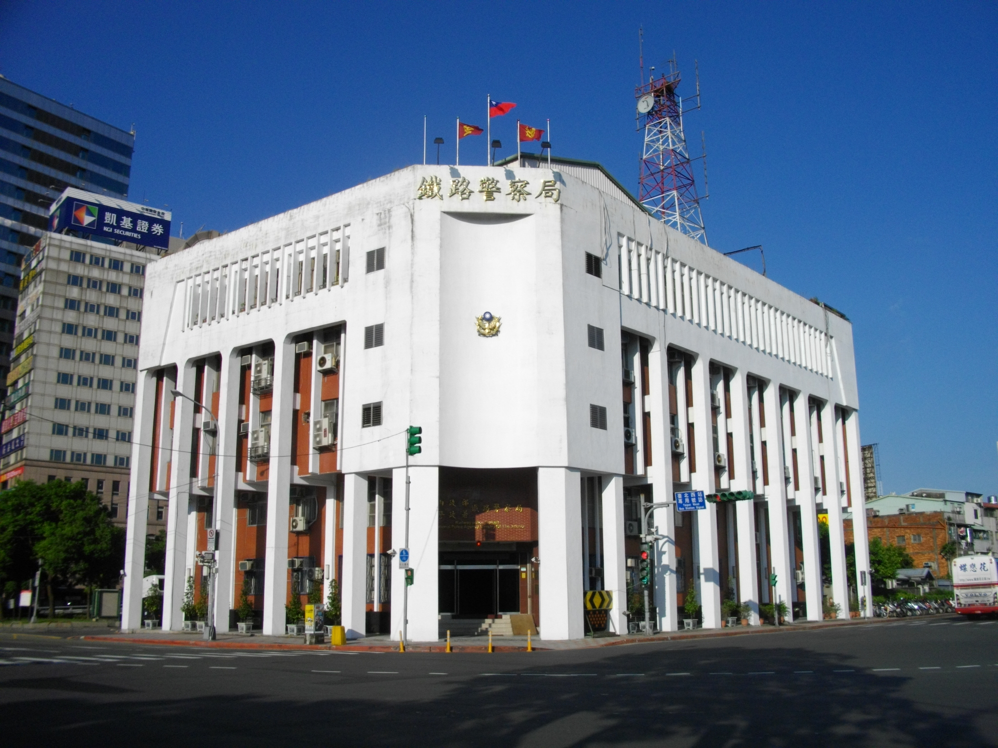 headquarters of Railway Police Bureau, National Police Agency